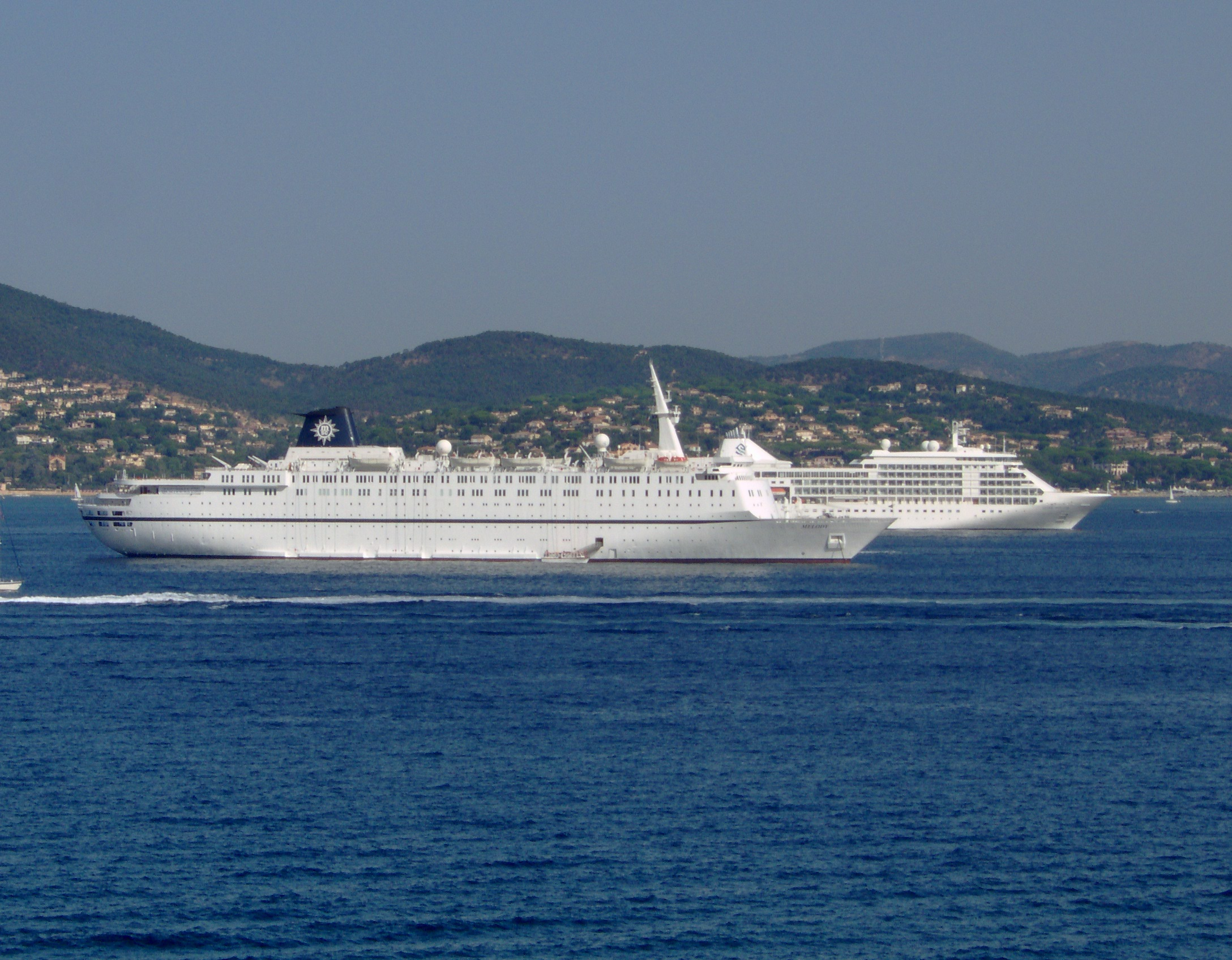 The cruise ships Melody and Silver Shadow anchored in Saint-Tropez on November 16, 2005.